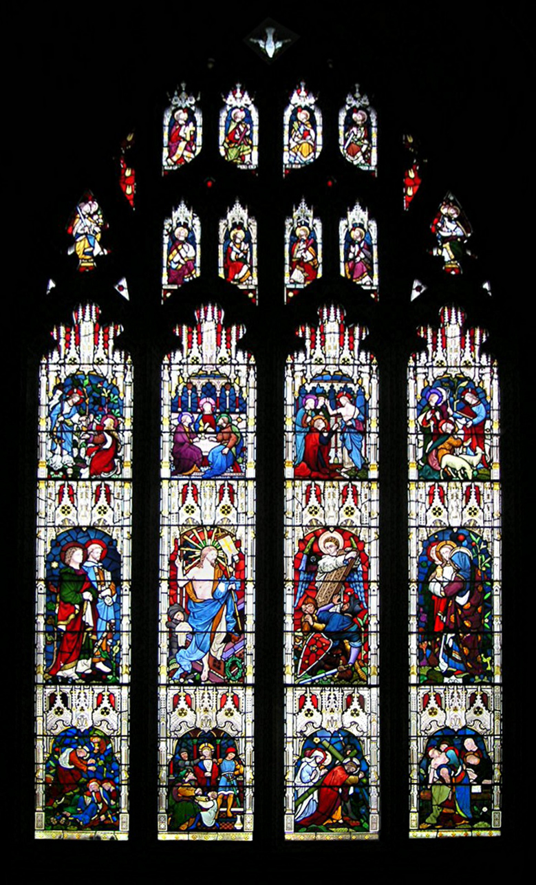 Peterborough Cathedral, four-light perpendicular window, glass- early Clayton and Bell, probably c.1860. Subject matter- from bottom left- Gethsemane, Pilate washes his hands, Road to Calvary, Deposition, John and Peter, Resurrection, Empty tomb, Three Marys, Noli me tangere, Supper at Emmaus, Doubting Thomas, Feed my sheep, Pentecost.